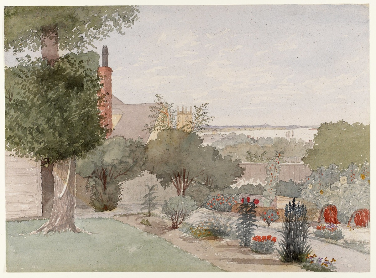 Artillery Park, Halifax, Nova Scotia. Watercolour over graphite on wove paper, 24.7 x 33.5 cm, purchased 1983 by the National Gallery of Canada (no. 28279)